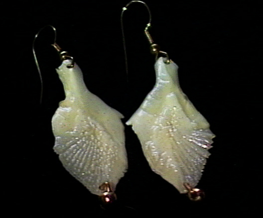 Natural color, clear coated earrings from the ganoid scales of alligator gar.